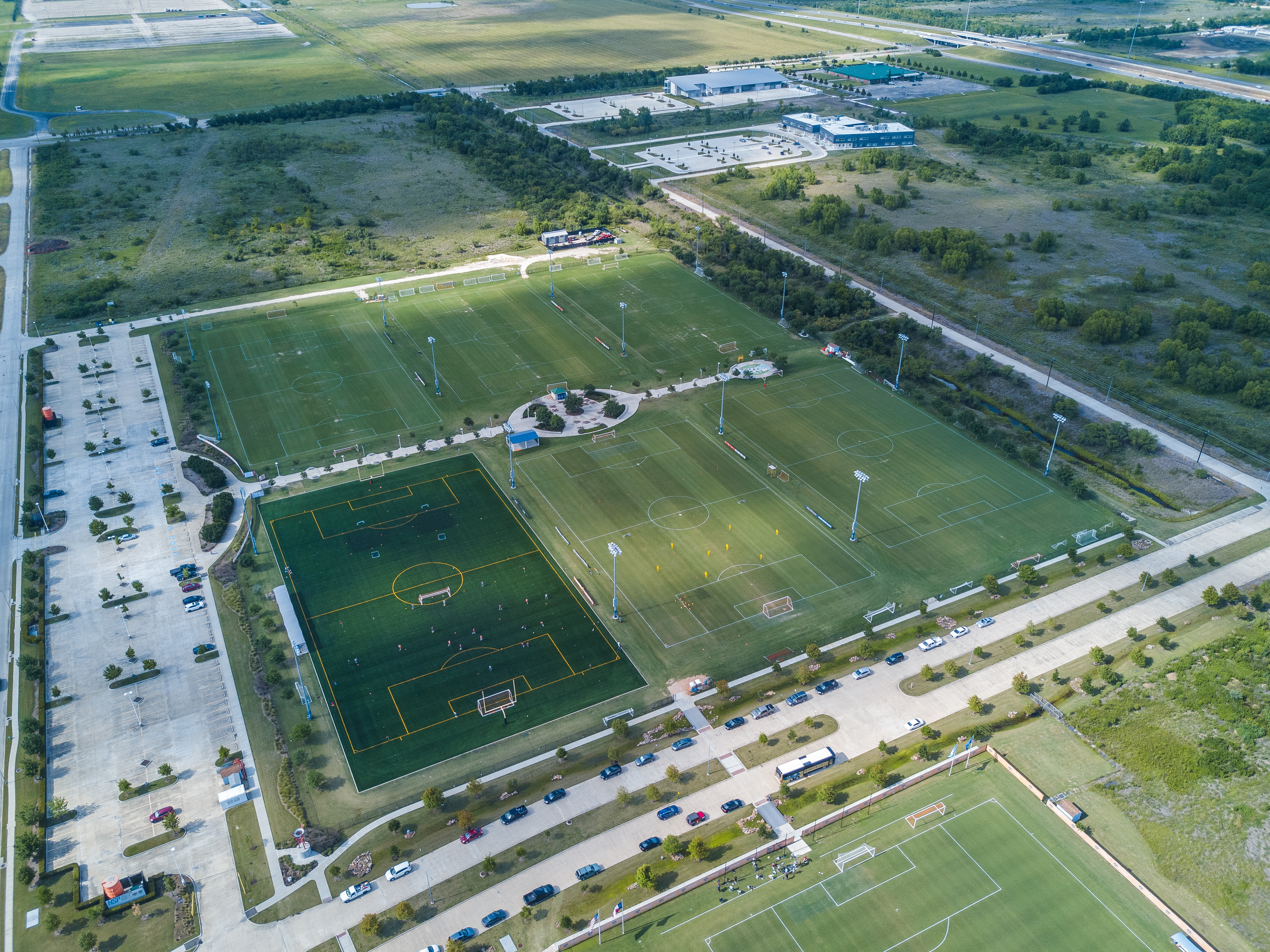 Drone view over 6 fields.